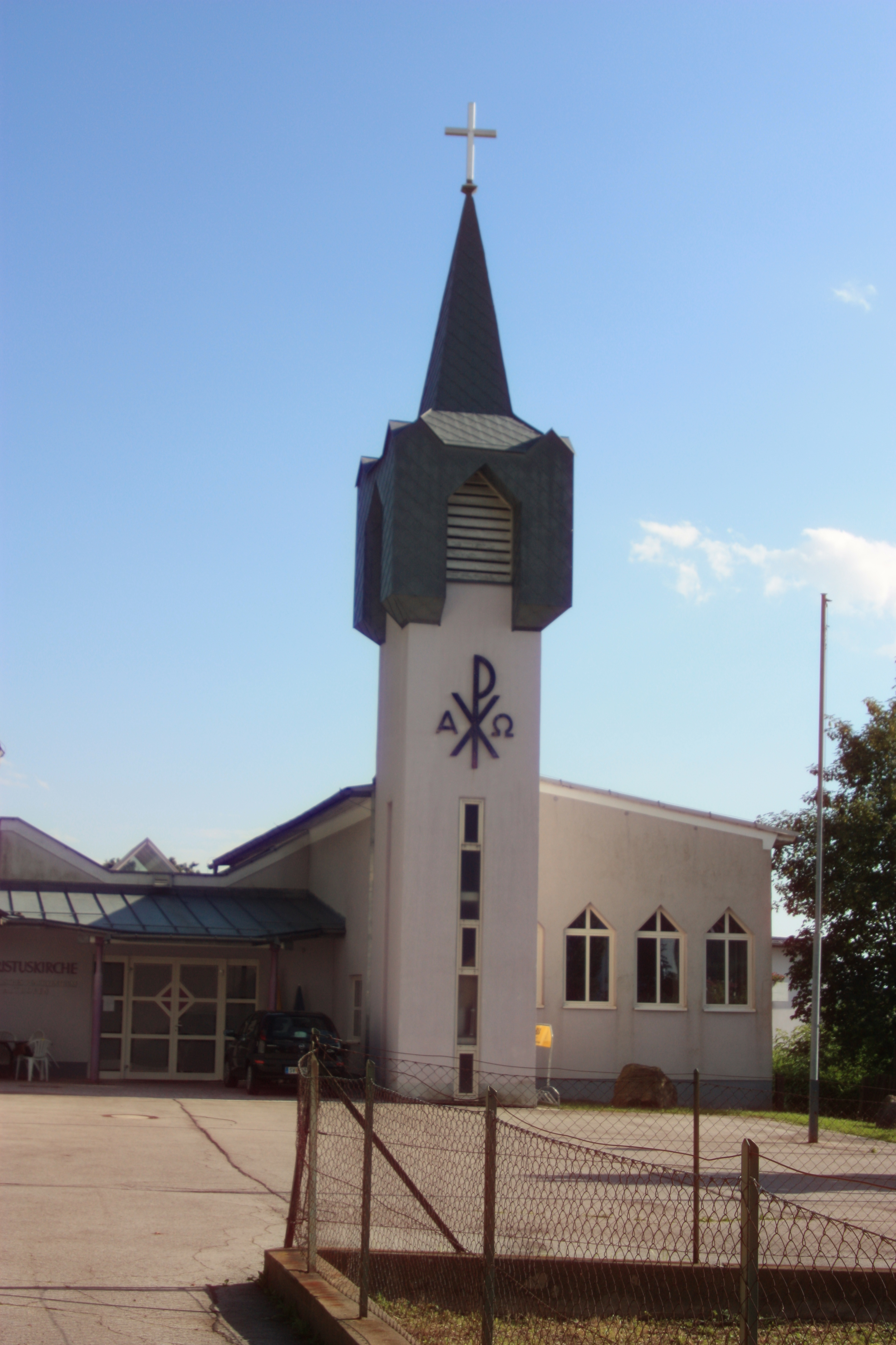 Lutherian church Street:Silberegger Straße Community:Althofen District:Sankt Veit an der Glan State:Carinthia Country:Austria